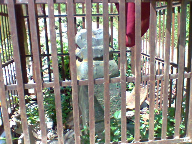 Prithivi Malla's Kirtistambha (Dullu)